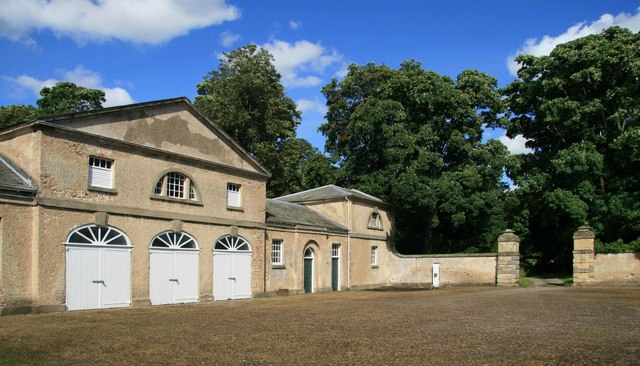 Norton Conyers Stables Stable Block at Norton Conyers.